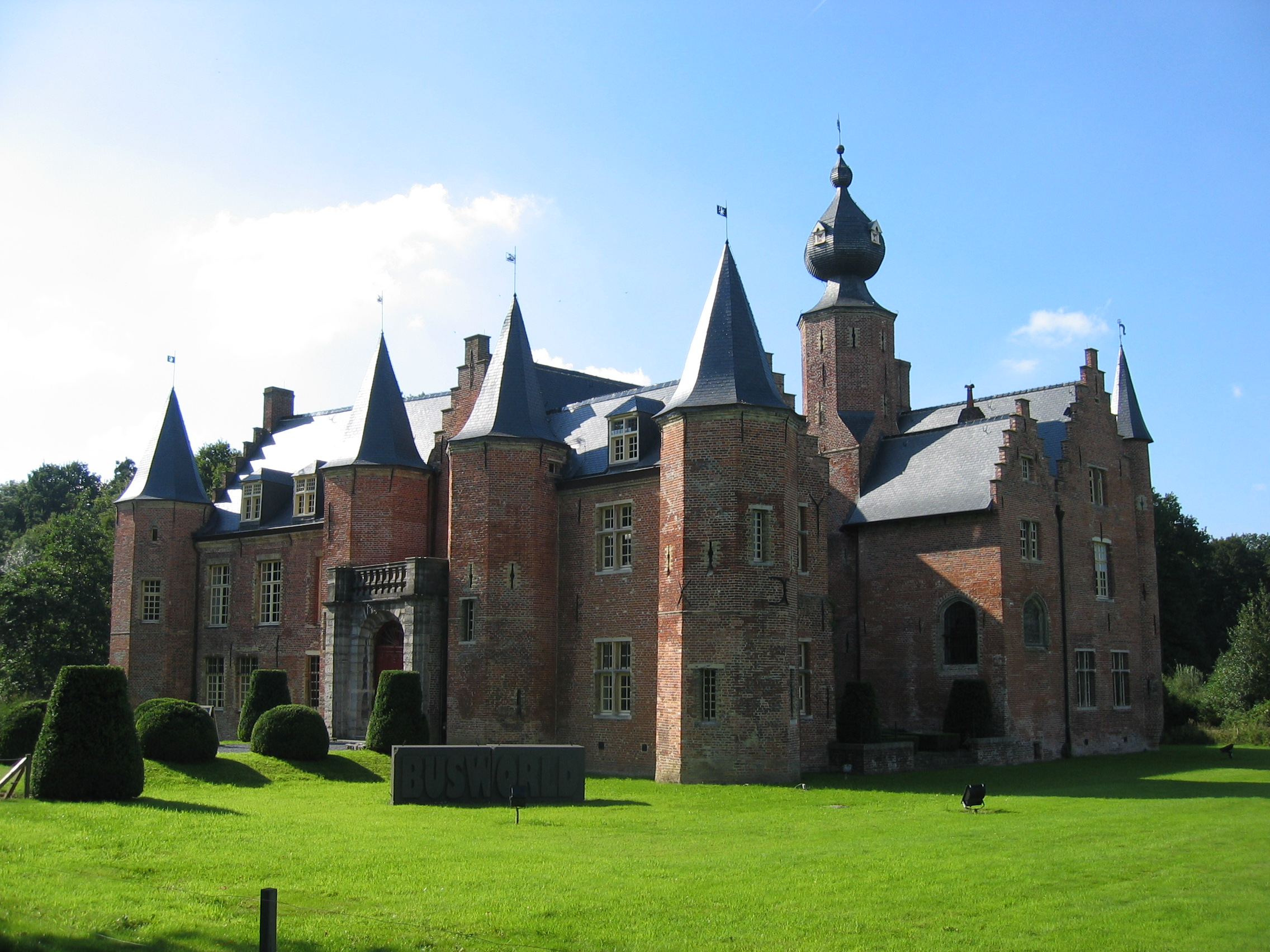 Castle of Rumbeke, Belgium. Picture by Tim Bekaert, August 2006.